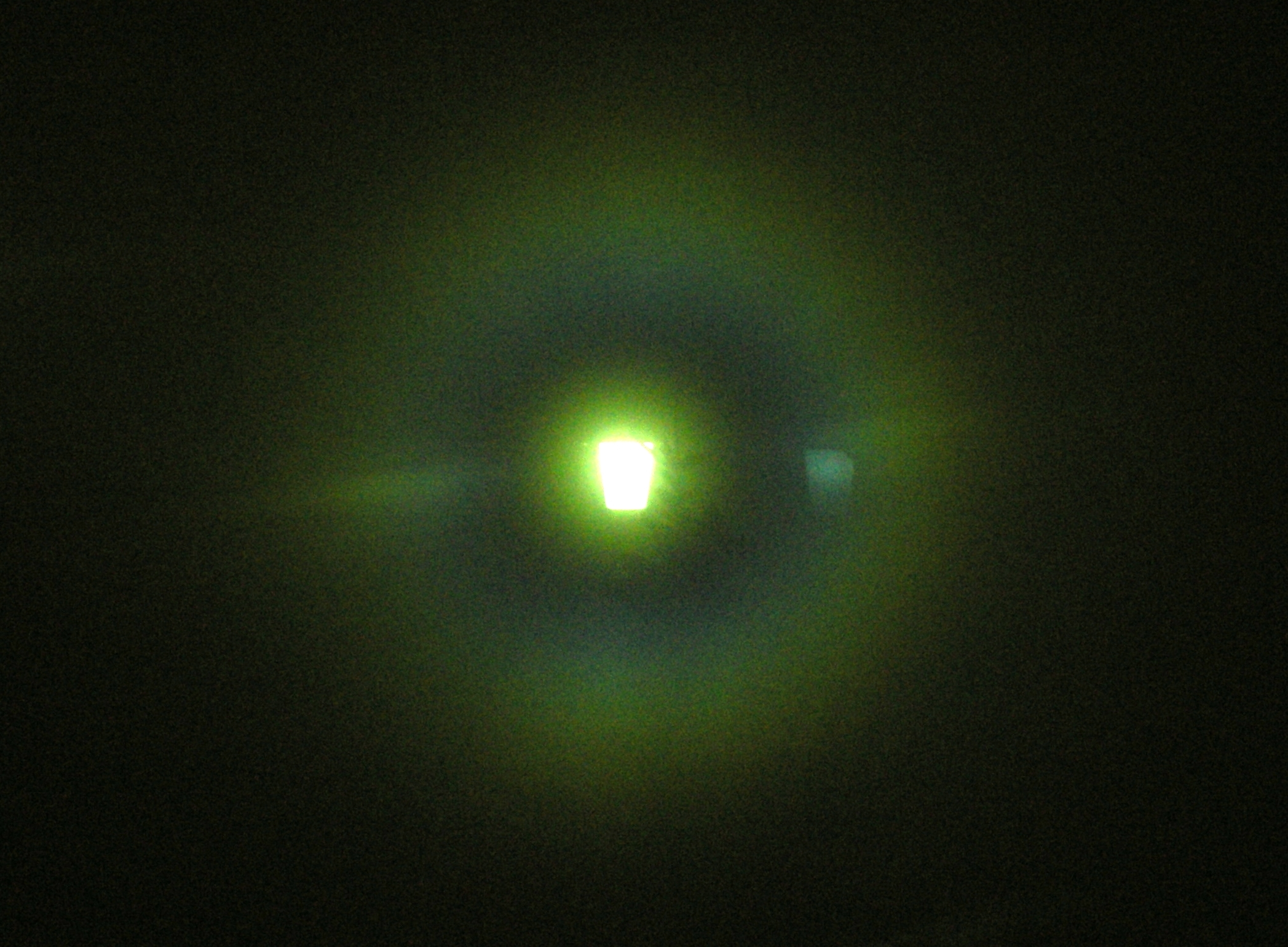 Corona around street lamps through an aspirated window pane.